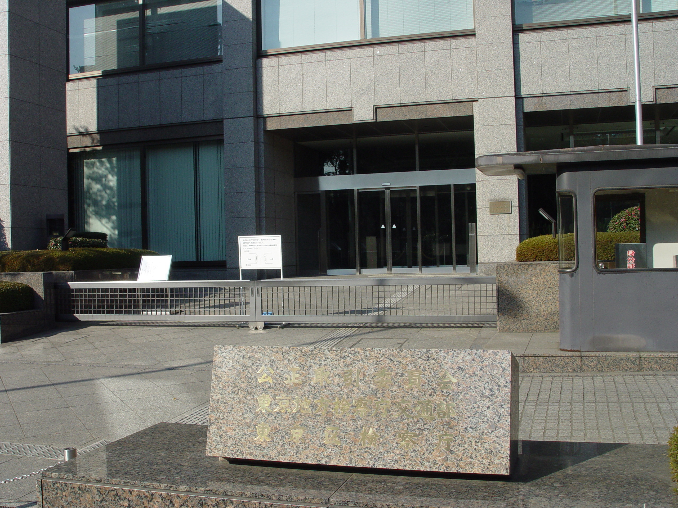 Public office building of The Fair Trade Commission, Japan 公正取引委員会庁舎